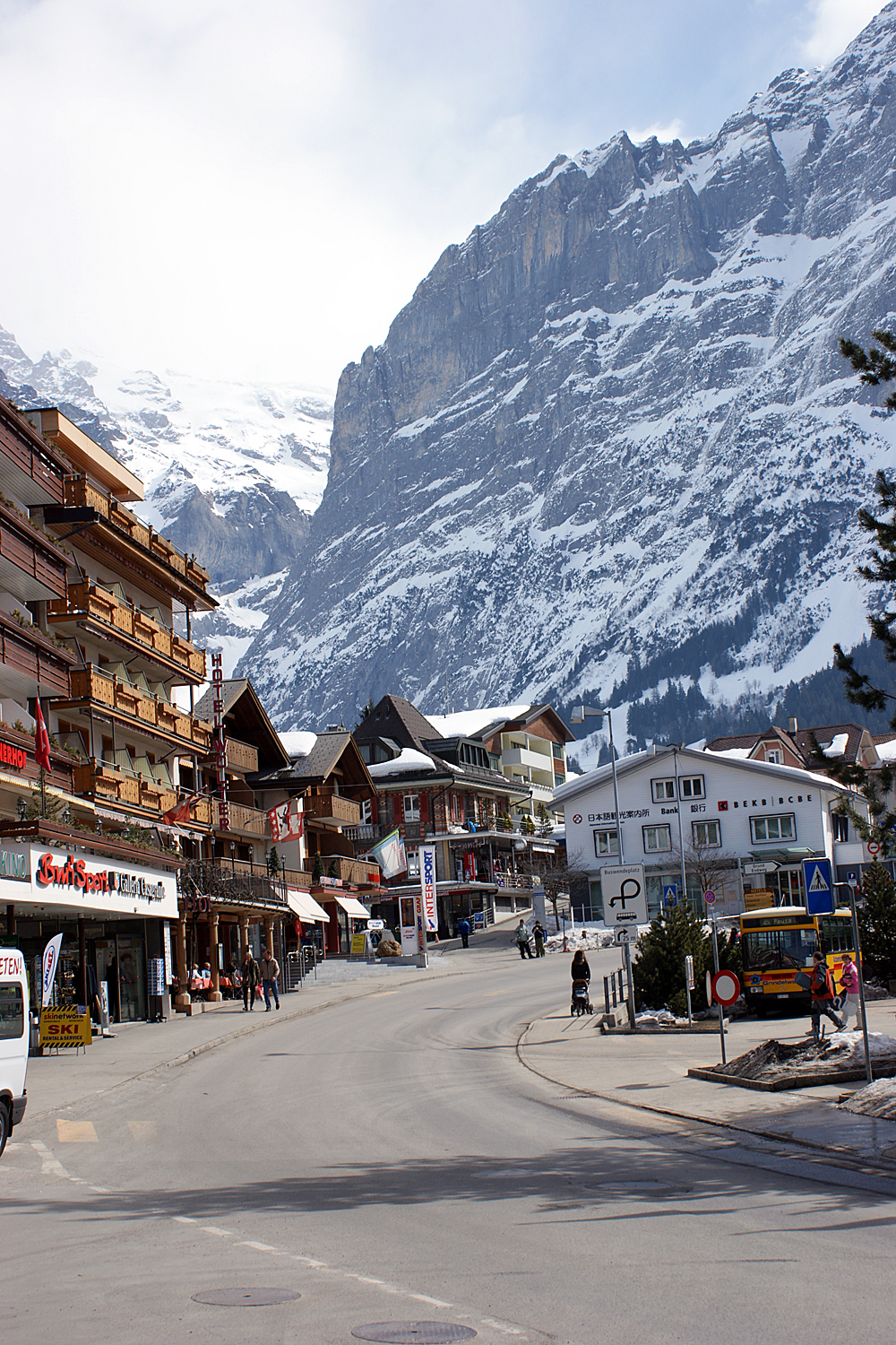 Grindelwald (Switzerland) – Main street near train station